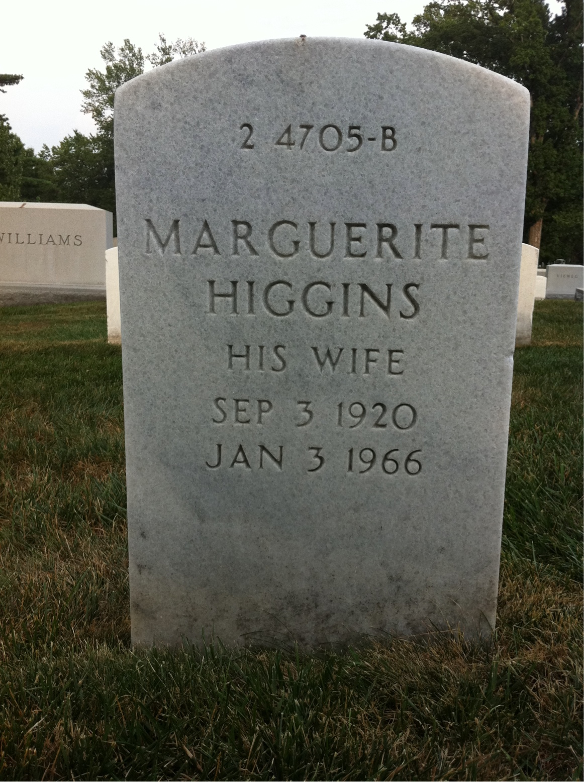 Grave of Marguerite Higgins Hall at Arlington National Cemetery, 2/4705-B